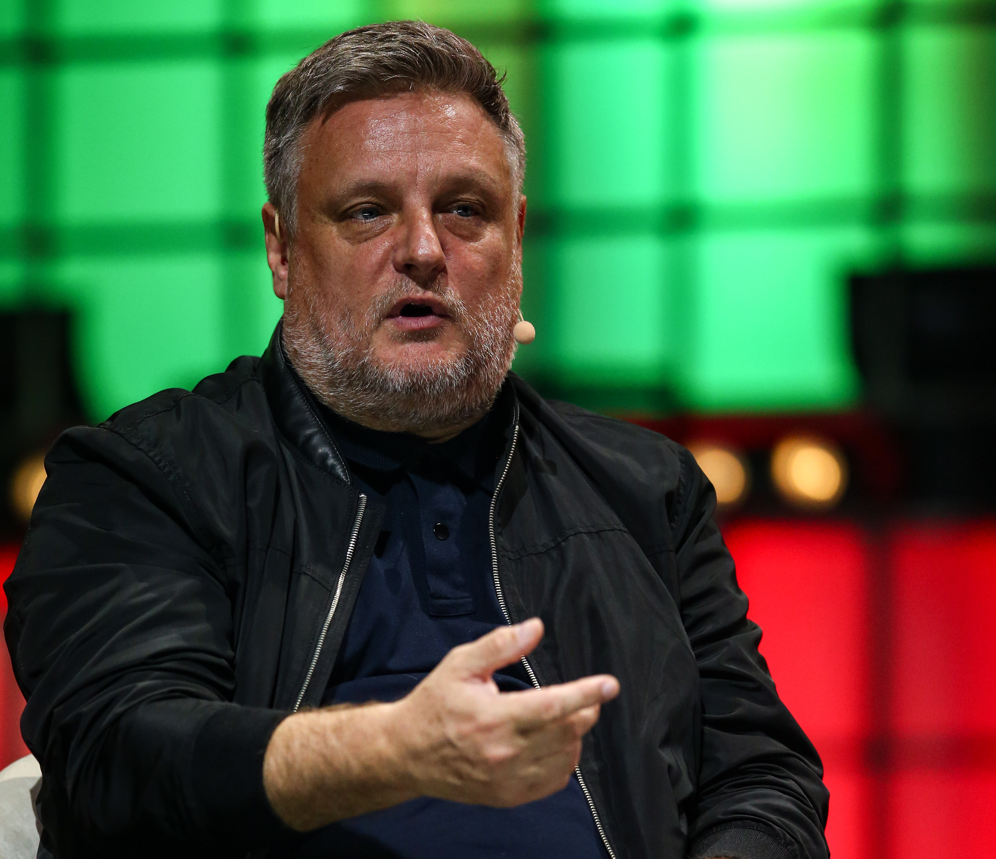 6 November 2019; Rankin, Photographer & co-founder, RANKIN, on Centre Stage during day two of Web Summit 2019 at the Altice Arena in Lisbon, Portugal. Photo by Vaughn Ridley/Web Summit via Sportsfile